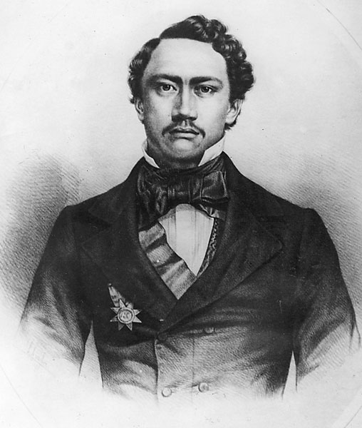 Kamehameha IV, born Alexander ʻIolani Liholiho Keawenui (1834–1863), reigned as the fourth king of the Kingdom of Hawaii from January 11, 1855 to November 30, 1863.